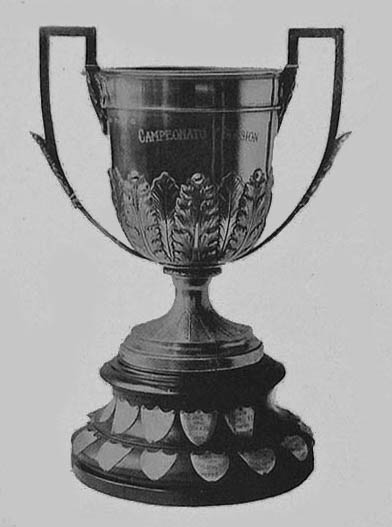 The "Copa Campeonato" trophy, which was given to Argentine Primera División champion of the season. Established in 1894, was played until 1926. In 2013 it was re-issued for the Superfinal Cup.